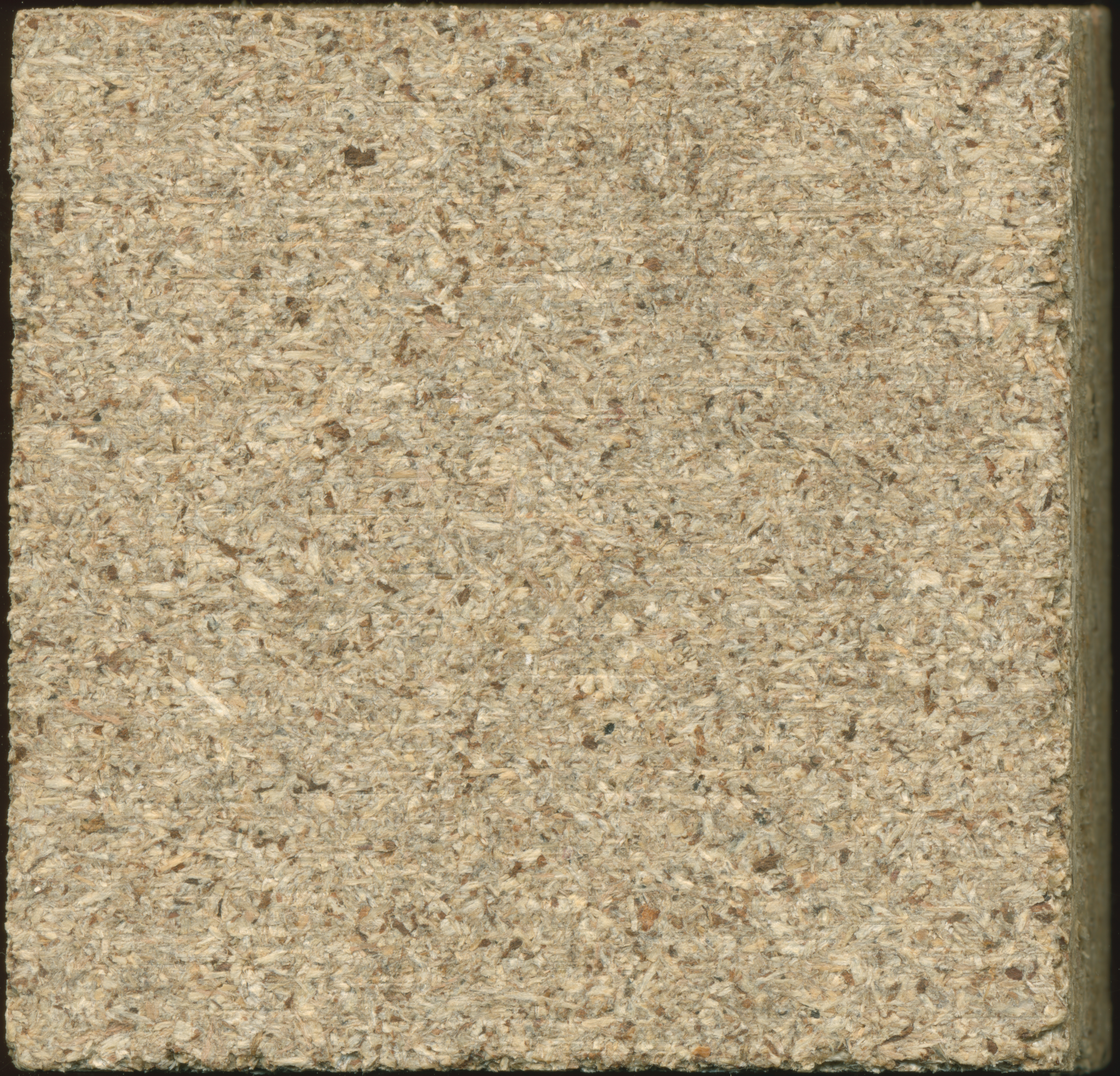 Close up to the plane face of a particle board